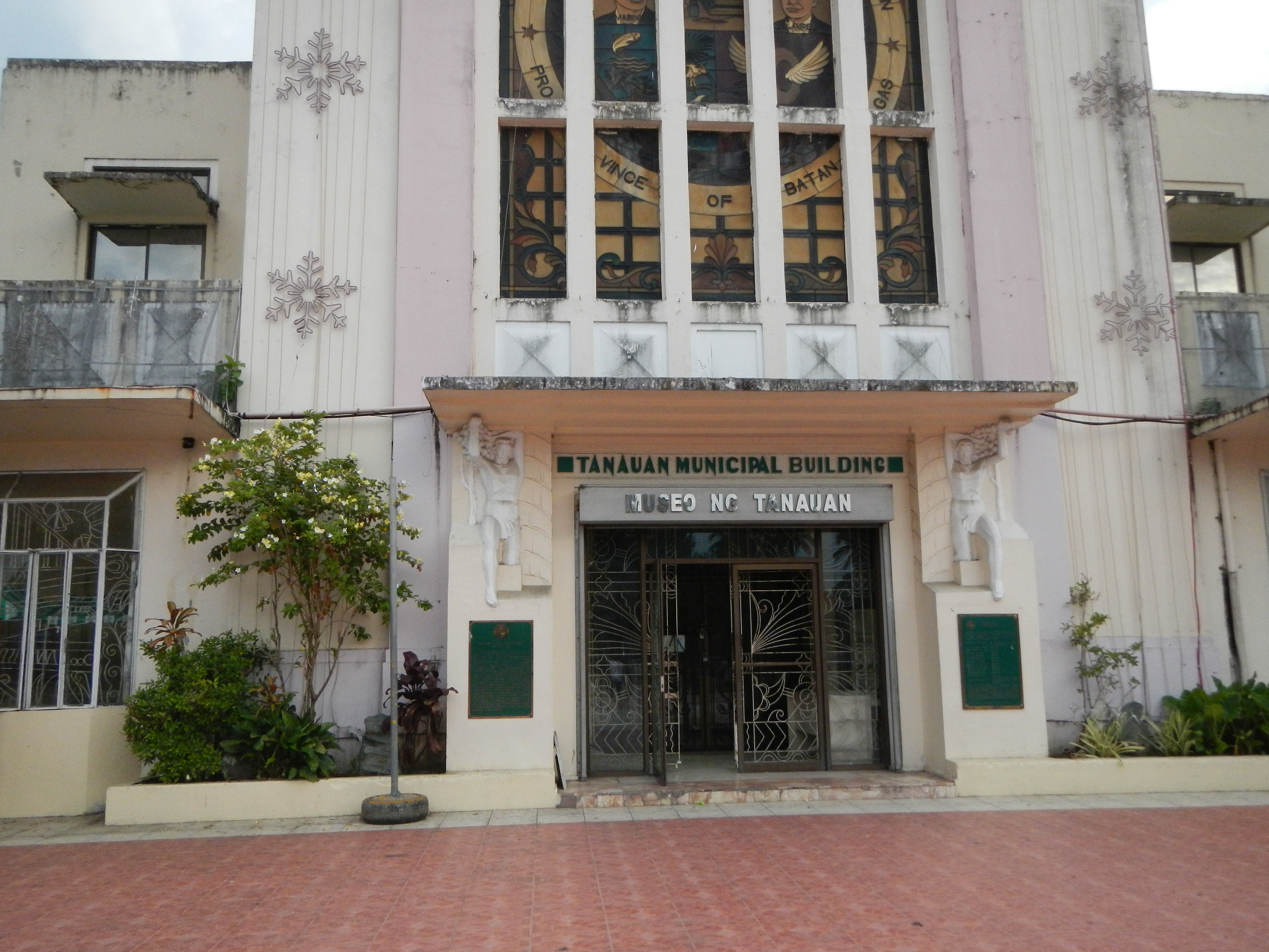 Old Municipal Building - now Museo ng Tanauan - at - the Apolinario Mabini [1] Monument, Plaza, in - Tanauan, Batangas [2] - The City of Tanauan is a first class city in the province of Batangas, Philippines. According to the latest census, it has a population of 152,393 inhabitants in 30, 354 households; incorporated as a city under Republic Act No. 9005, signed on February 2, 2001, and ratified on March 10, 2001. [3] Coordinates: 14°5'28"N 121°5'51"E [4] Geographical location: Batangas, Region 4, Philippines, Asia Geographical coordinates: 14° 4' 58" North, 121° 9' 2" East This place is situated in Batangas, Region 4, Philippines, its geographical coordinates are 14° 4' 58" North, 121° 9' 2" East and its original name (with diacritics) is Tanauan. Website